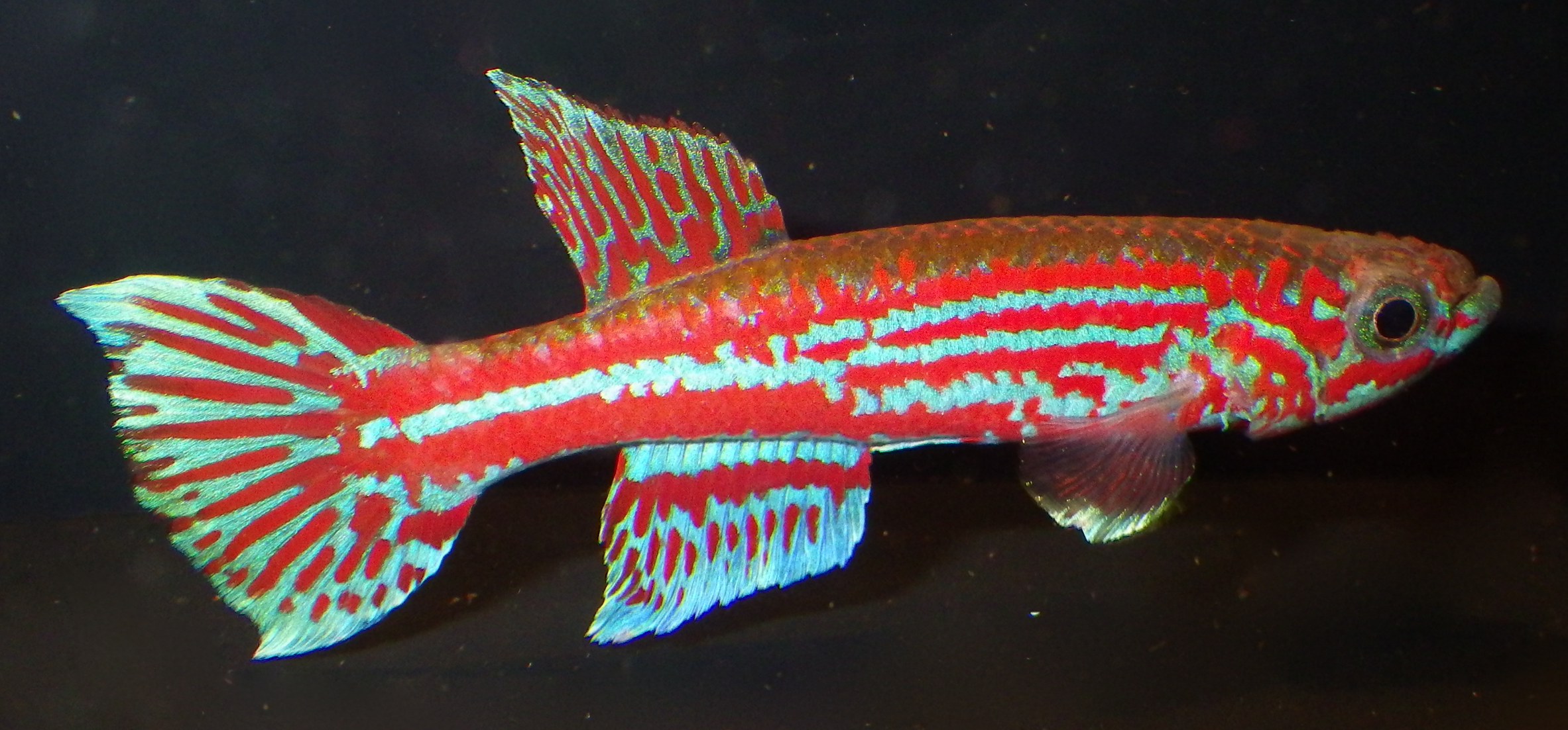 Male Aphyosemion ogoense, collection code GHP 80-24